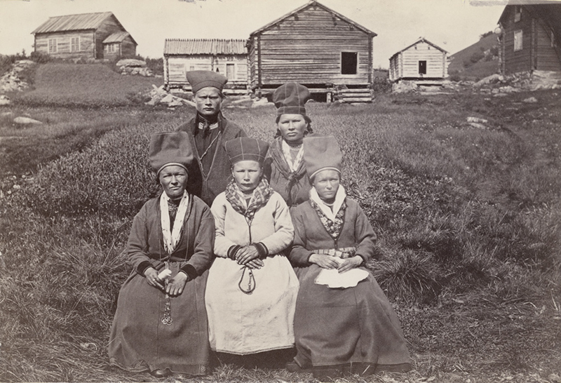 depicted place: Lappland, Sorsele, Ammarnäs (Sverige (SE))